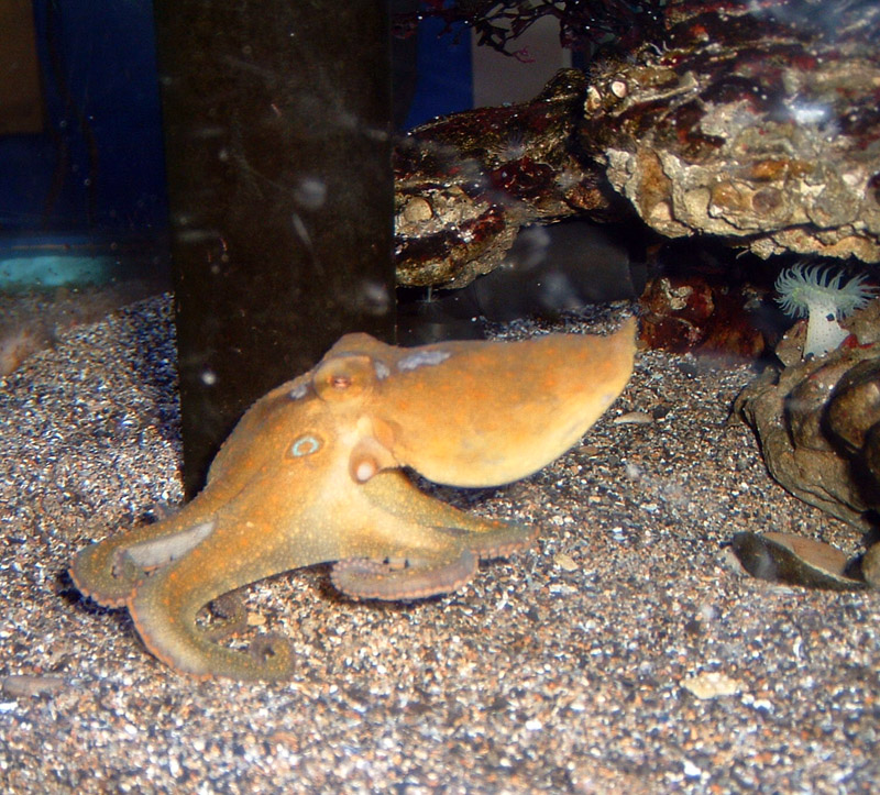 California Two Spot Octopus Taken by Jeremy Selan Santa Monica Pier Aquarium Santa Monica, CA 12/3/06